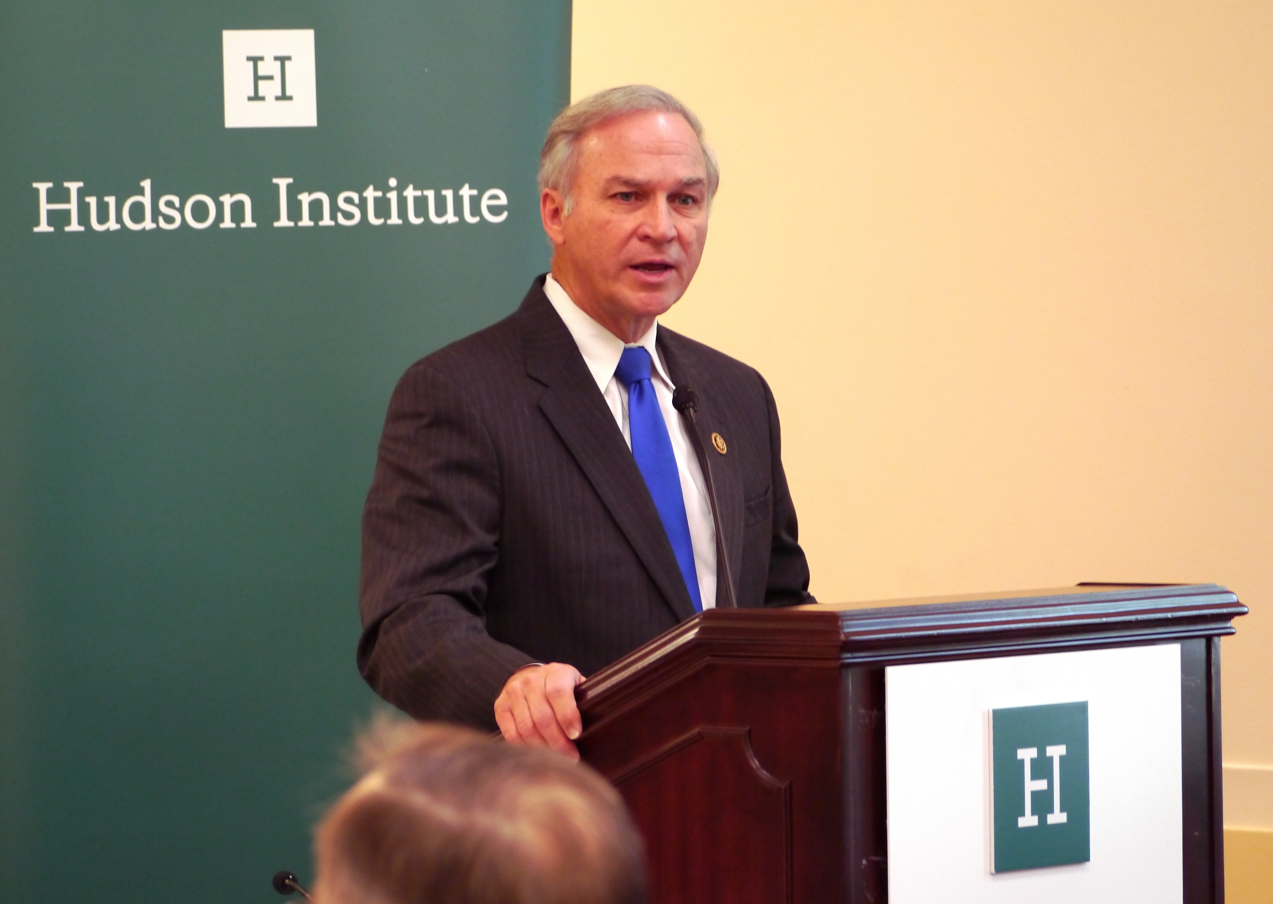 Sharpening the Spear: Report Release on the Future of the Aircraft Carrier